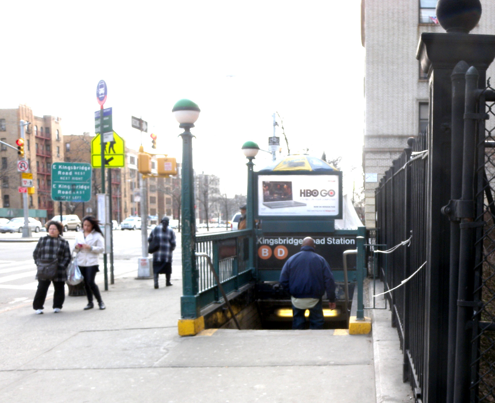 Looking south at northwestern street stair of Kingsbridge Road (IND Concourse Line) on a cloudy afternoon.